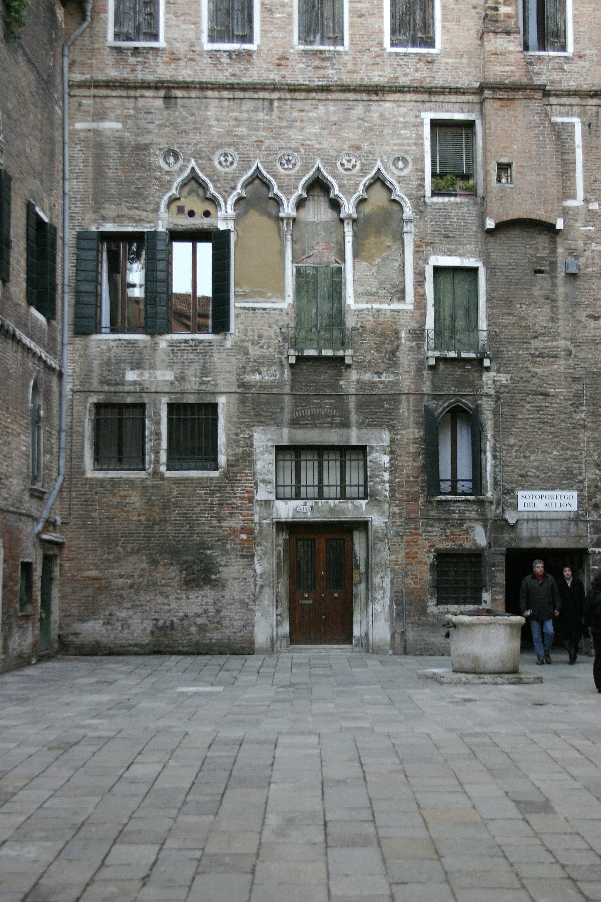 Venice – Old house front said to have been the house of Marco Polo